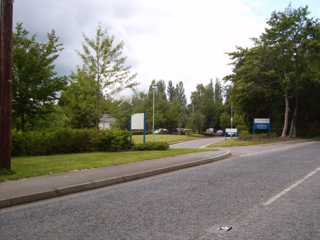 Entrance into Tatchbury Mount This is the entrance into Tatchbury Mount. The remains of an iron-age hill fort is to the rear of the site, and the Manor House was a home for sailors in WWII. It has also been a psychiatric hospital and is still used by the NHS.